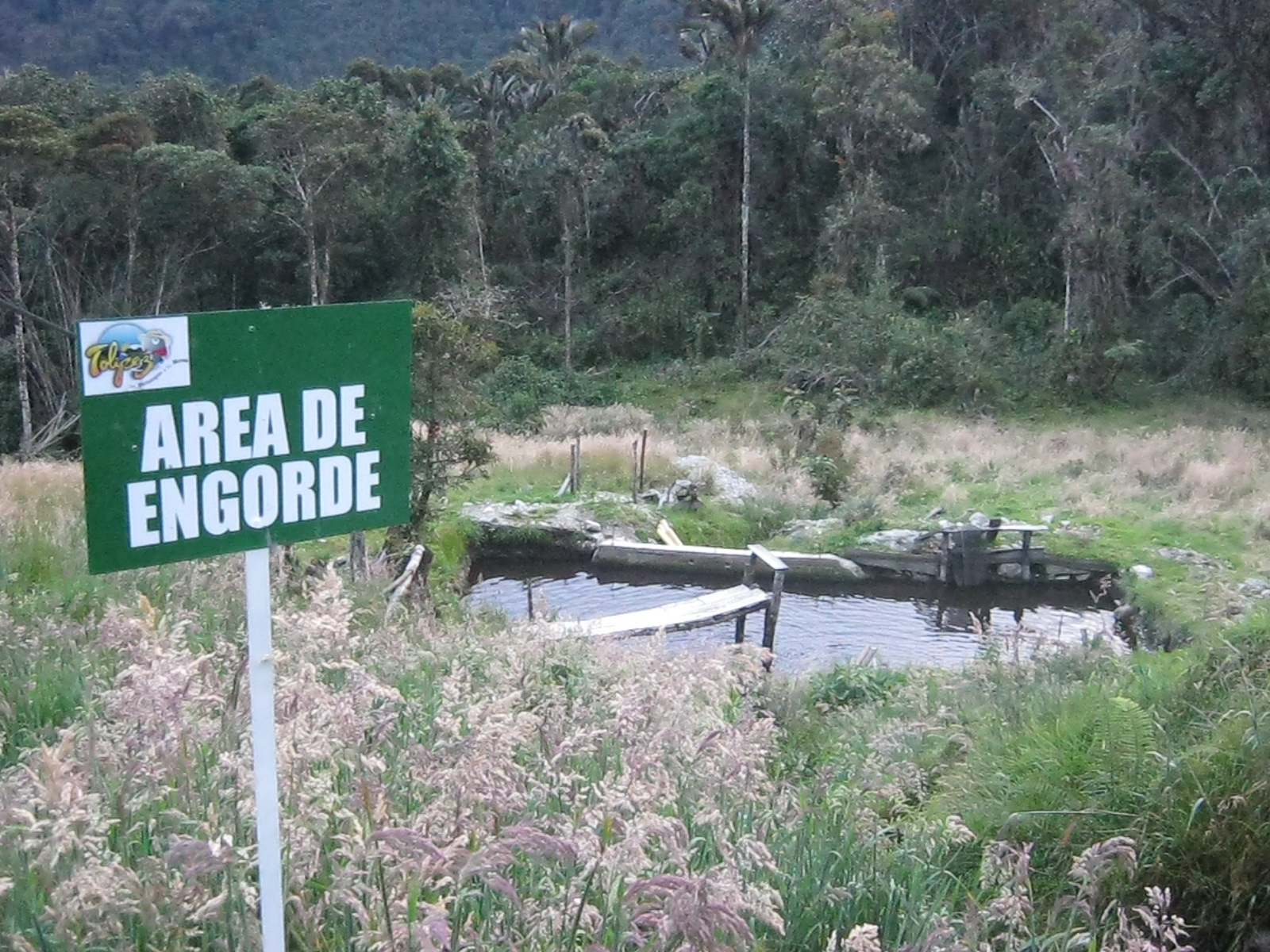 Área de engorde en Cultivo de Truchas, Vereda Las Mercedes en Núcleo Veredal de Herrera